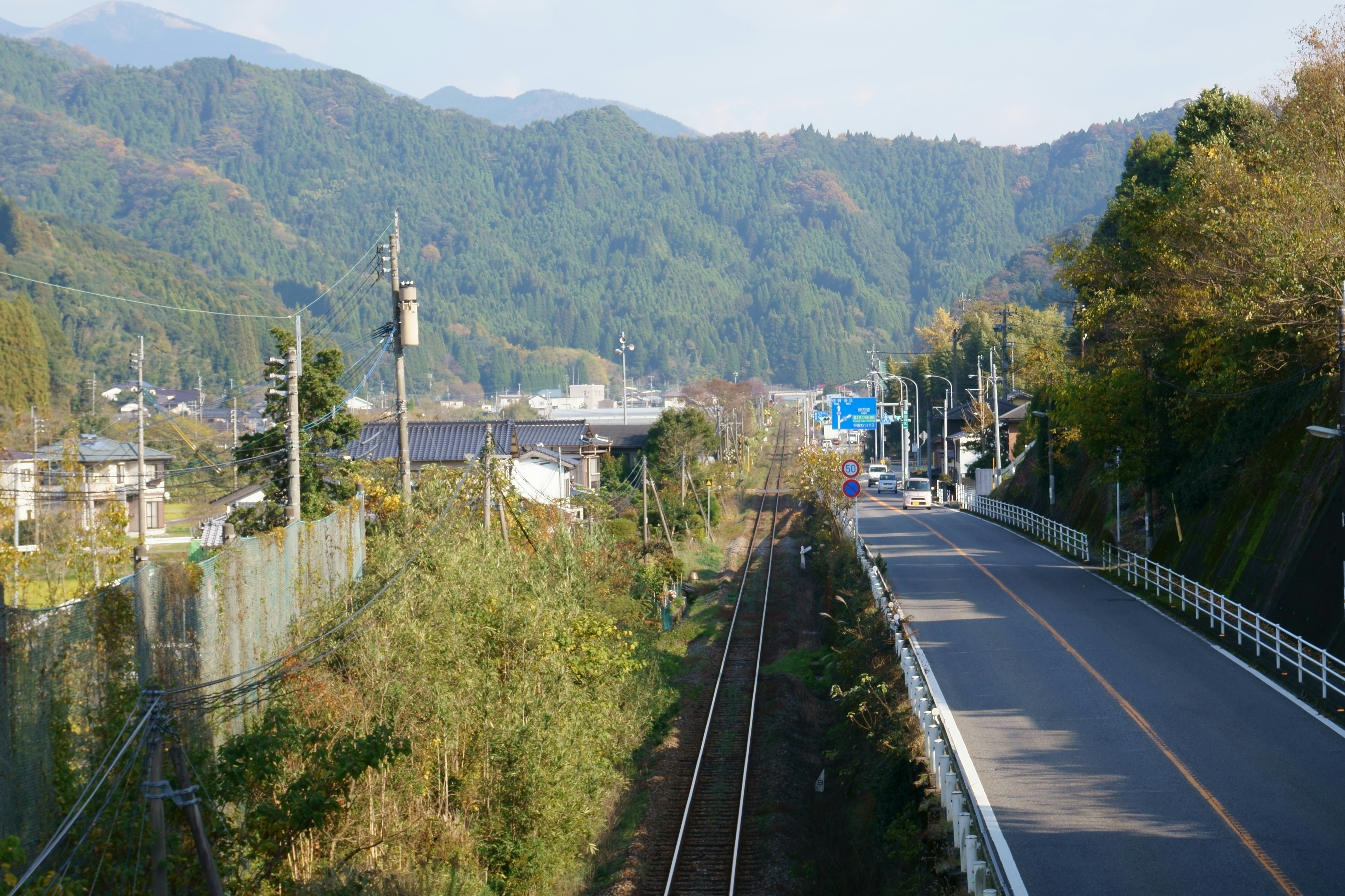 Kyuragi and Utsubogi district facing Kyuragi River, taken from footbridge over Saga Prefectural Road Route 350. Kyuragi-machi Utsubogi, Karatsu, Saga.